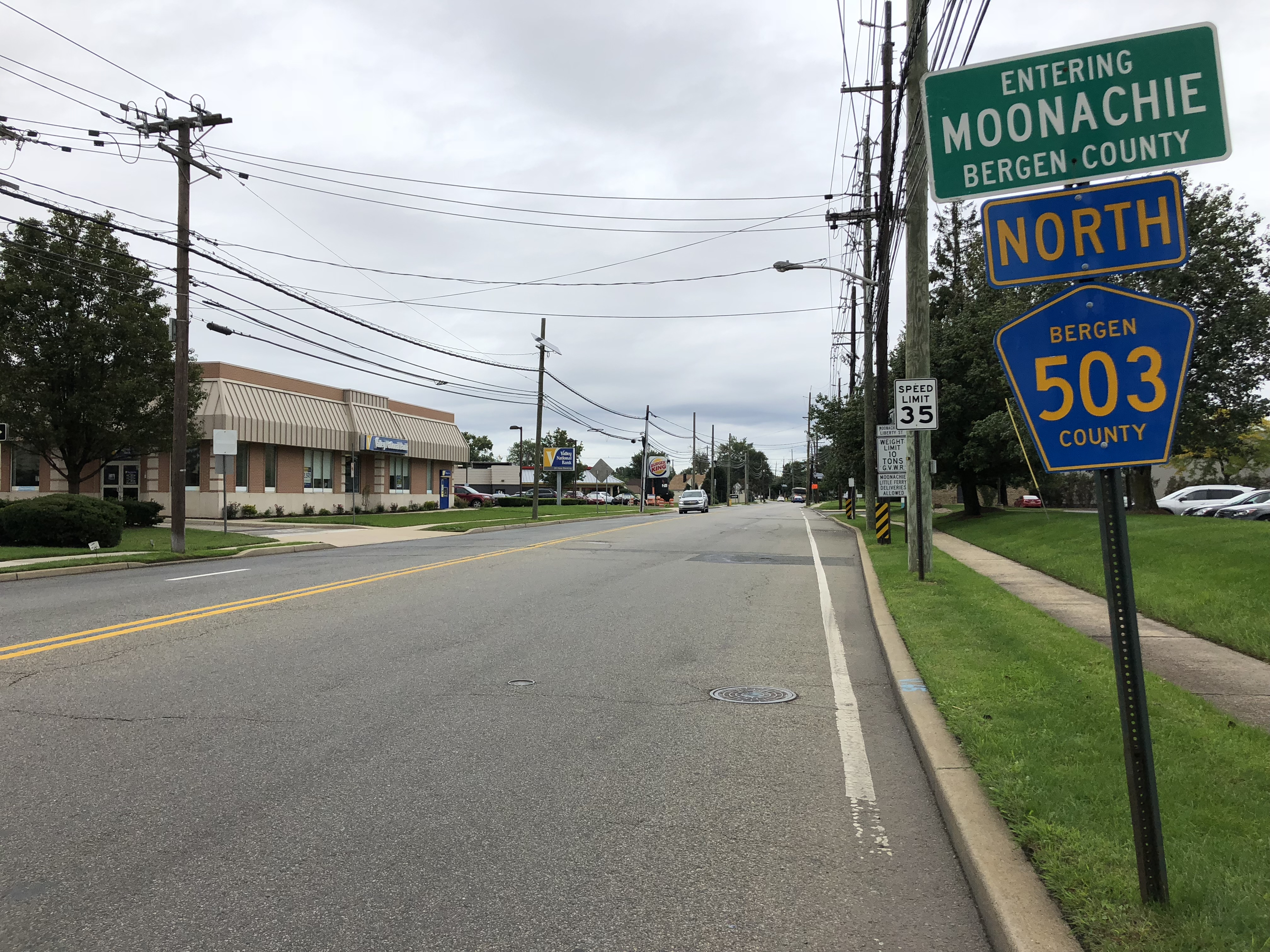 View north along Bergen County Route 503 (Moonachie Road) at Bergen County Route 36 (Moonachie Avenue/Empire Boulevard) in Moonachie, Bergen County, New Jersey